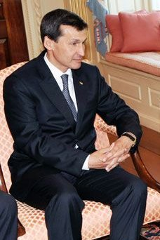 Rashid Meredov, a Turkmenistani politician.